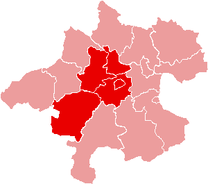 Map of Upper Austrian quarter "Hausruckviertel"